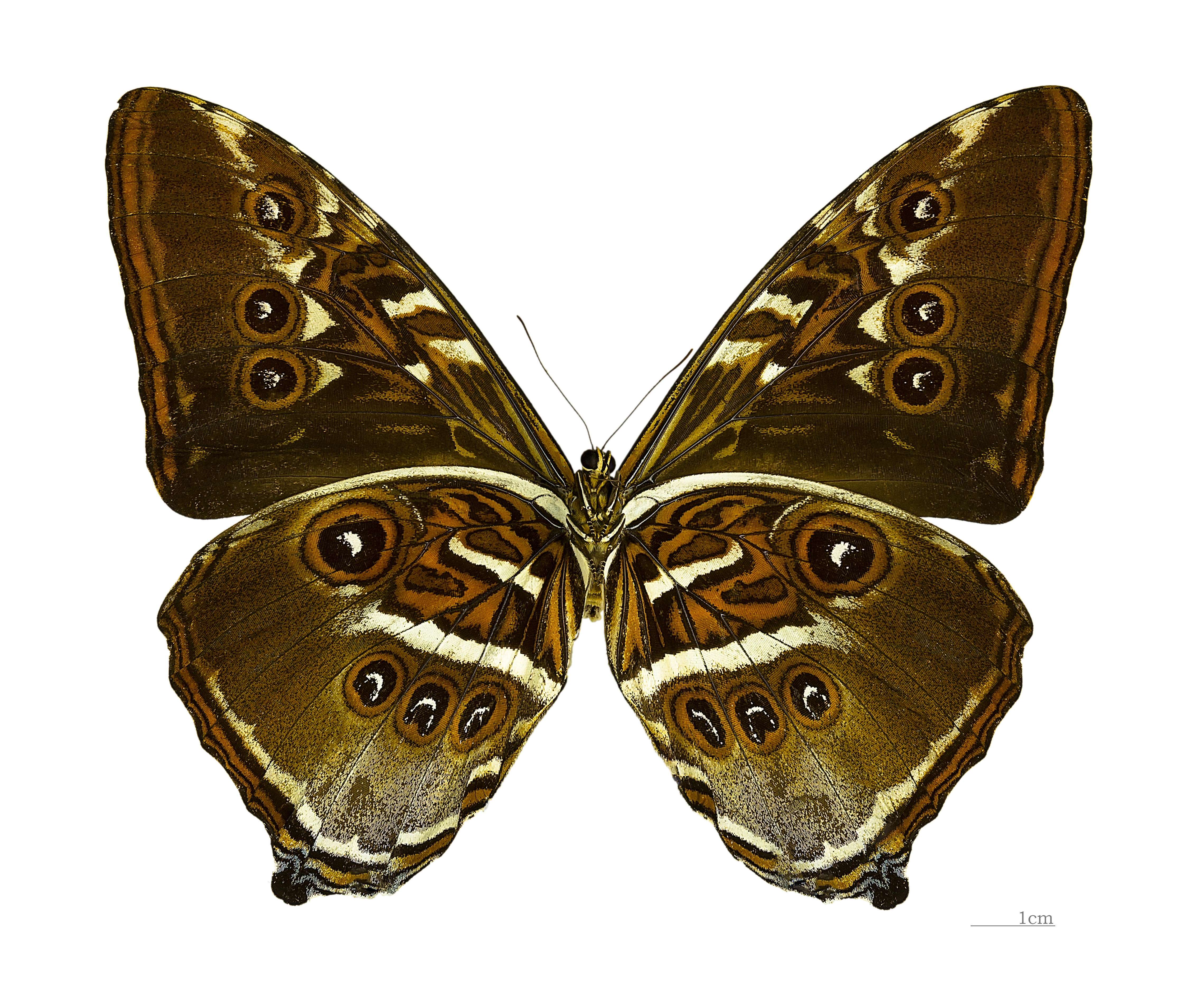 Sunset Morpho - △ Ventral side